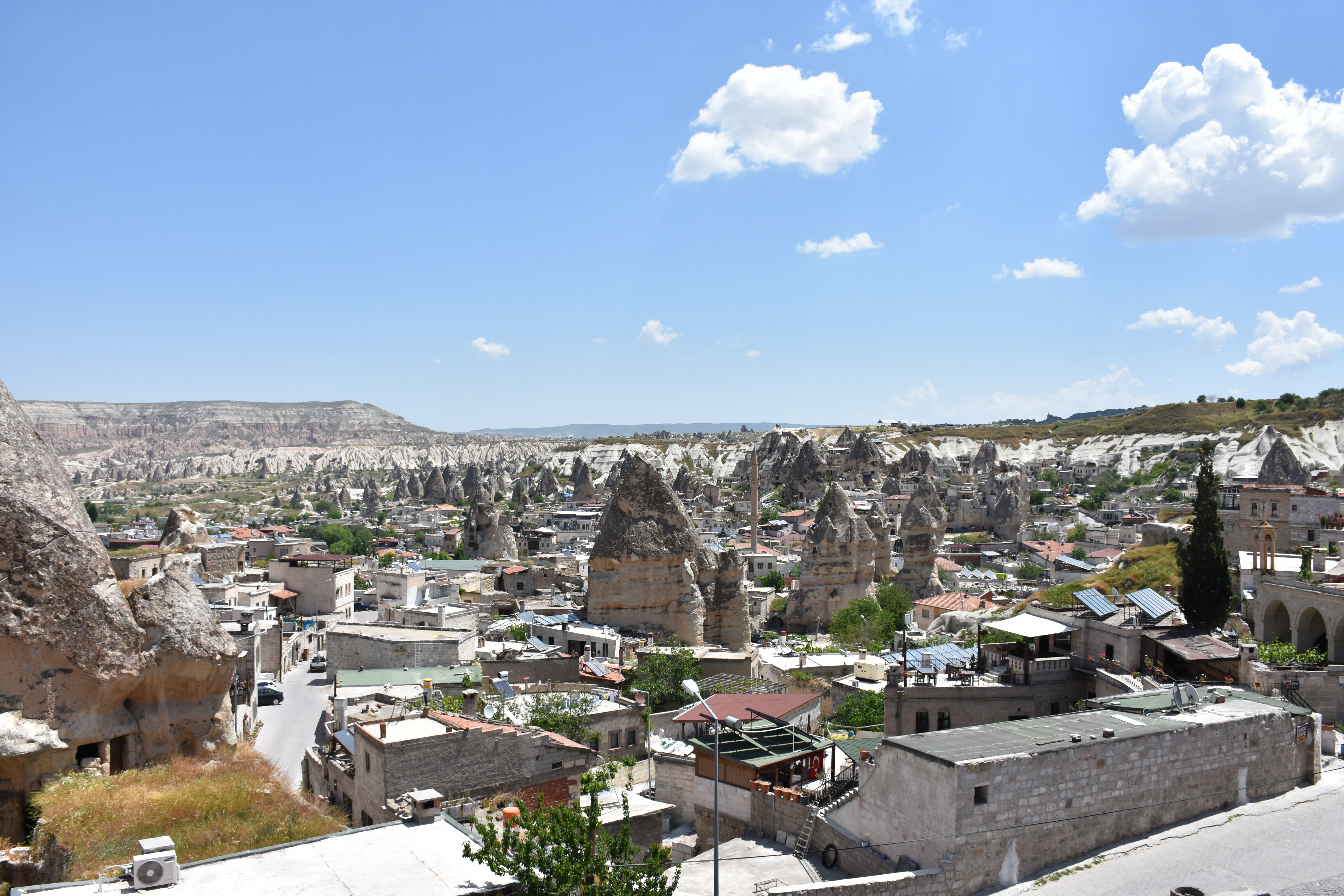 View of Göreme town and valley in May of 2015.